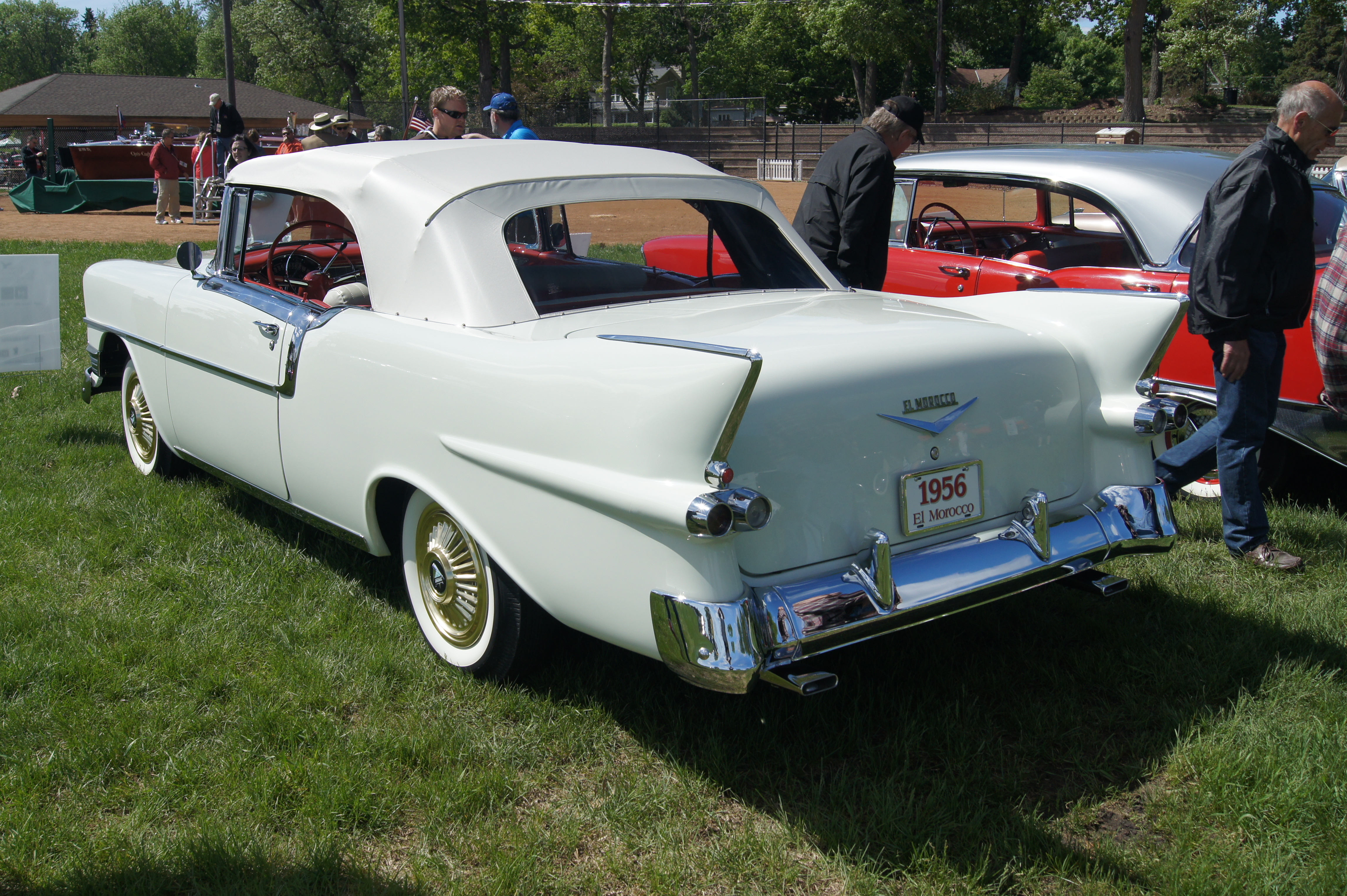 56 Chevrolet El Morocco